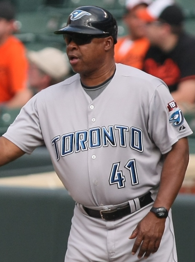 Toronto Blue Jays first base coach Dwayne Murphy - May 27, 2009.